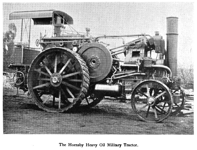 Hornsby & Sons Heavy Oil Tractor (1903) with V twin cylinder Hornsby-Akroyd oil engine met the stringent condition laid down by the military in a trial in 1903, and took away a prize of £1180.